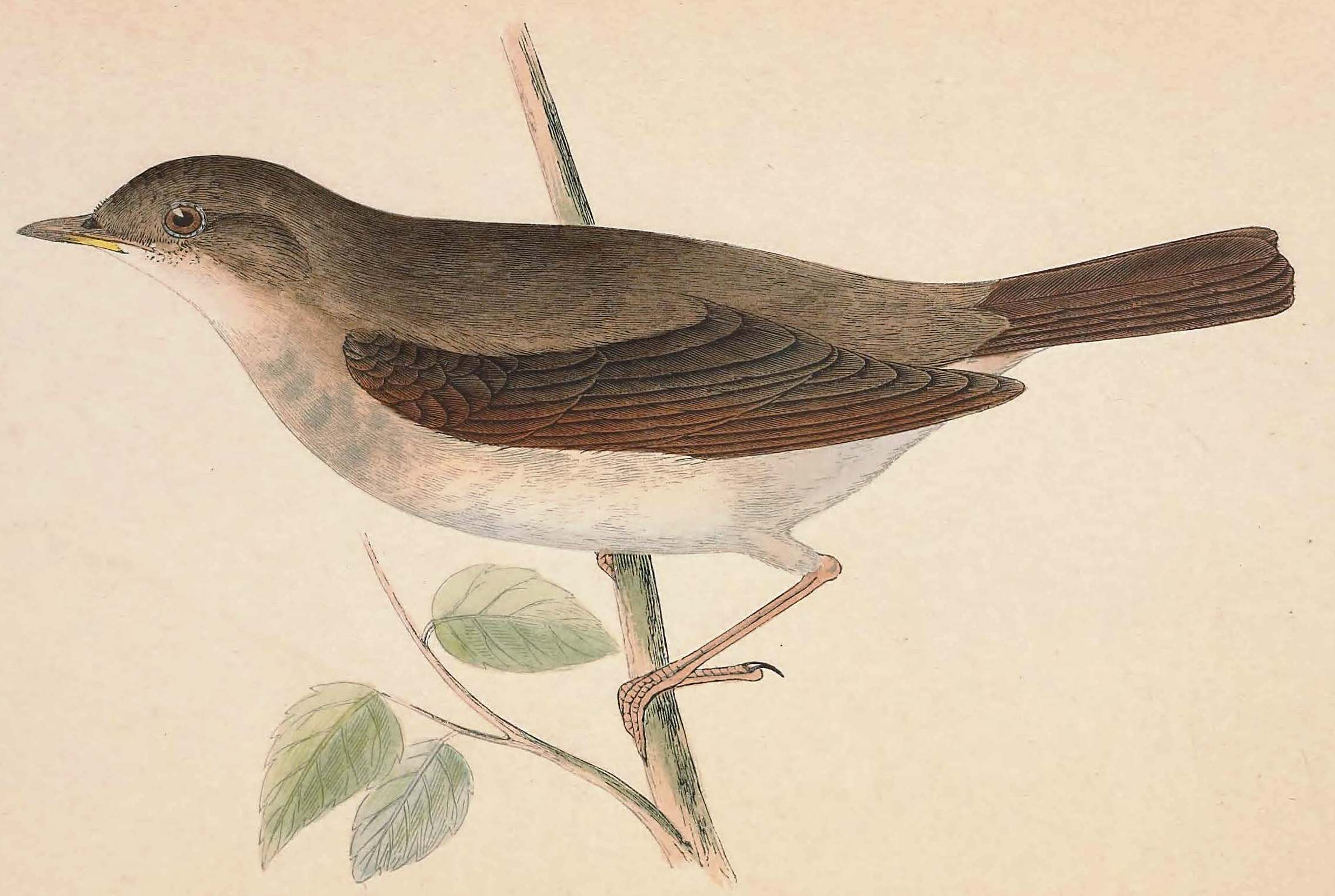 Luscinia luscinia Bree